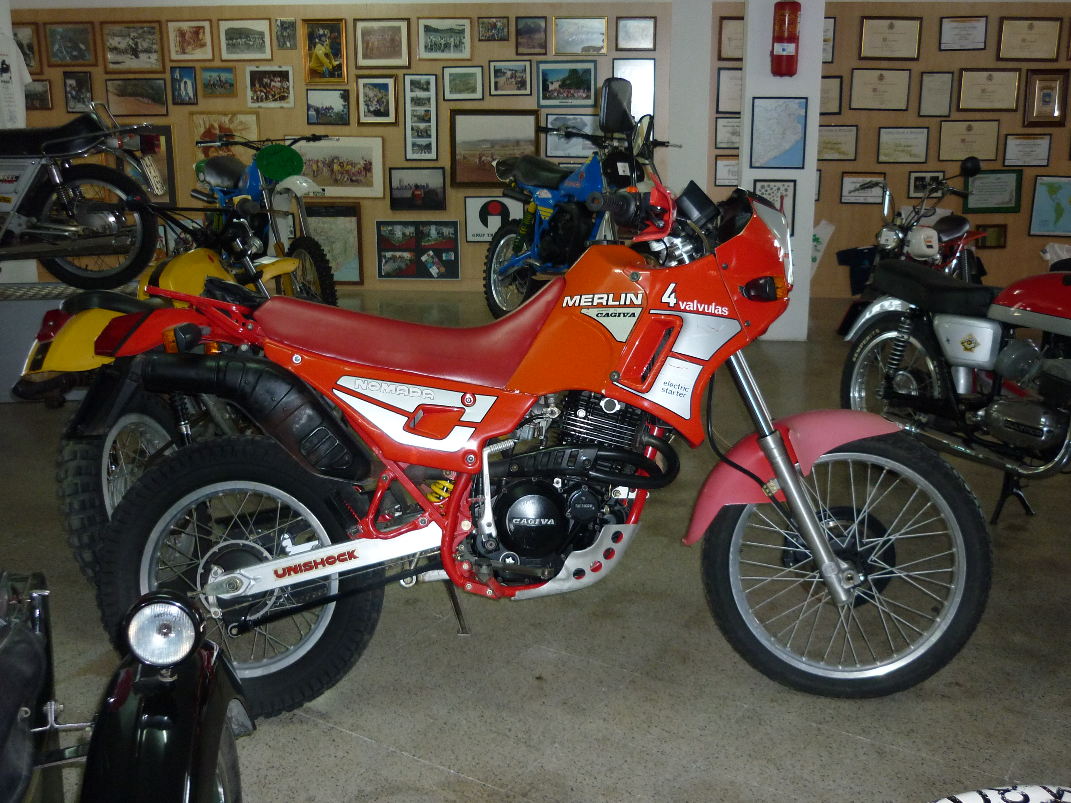 Merlin Nomada 450cc (circa 1988), a trail motorcycle with a Cagiva engine, owned by Josep Isern.Isern Motorcycle Museum, Mollet del Vallès (Catalonia).